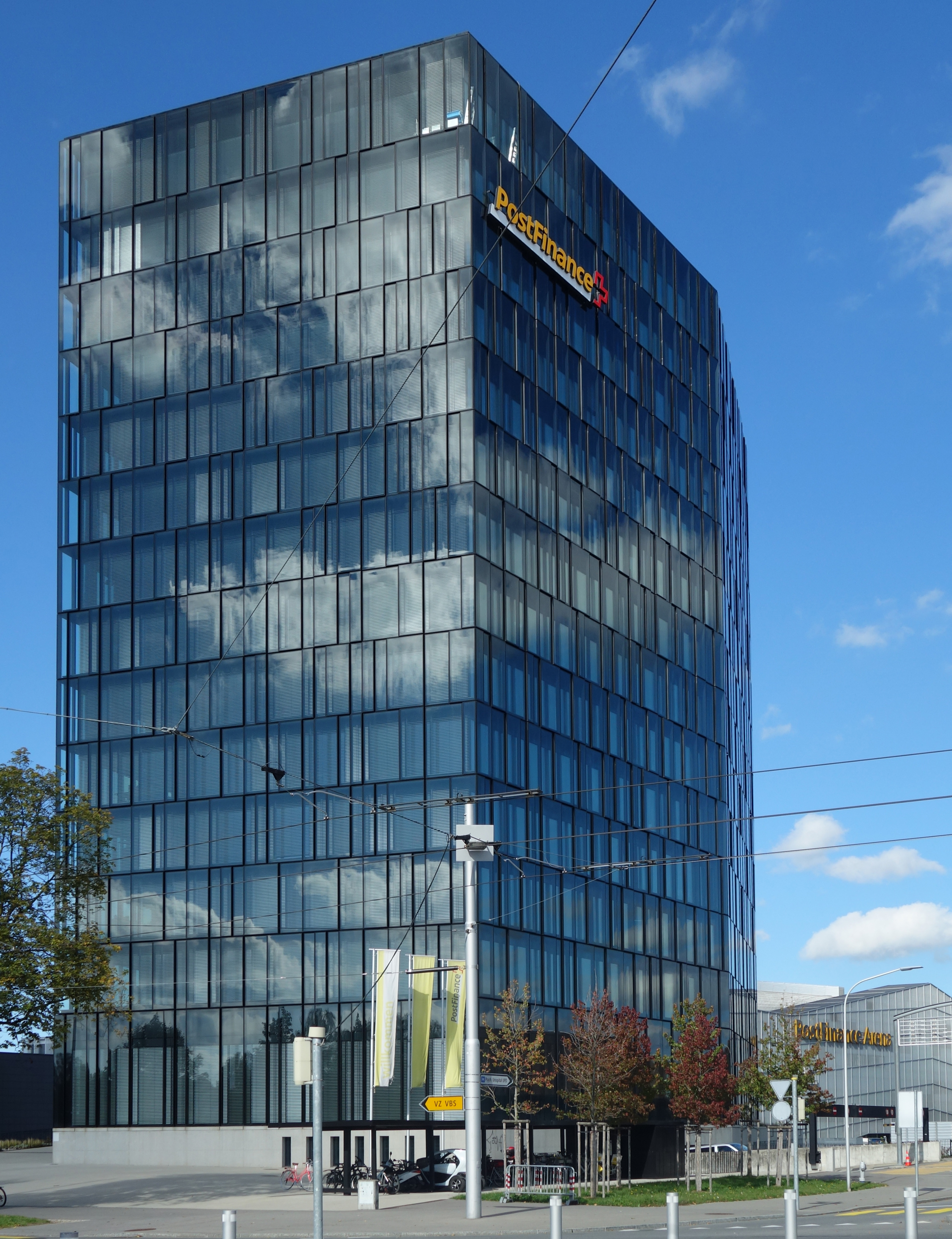 Headquarters of Swiss financial services provider PostFinance, Mingerstrasse, Bern, Switzerland. In the background, the PostFinance Arena.